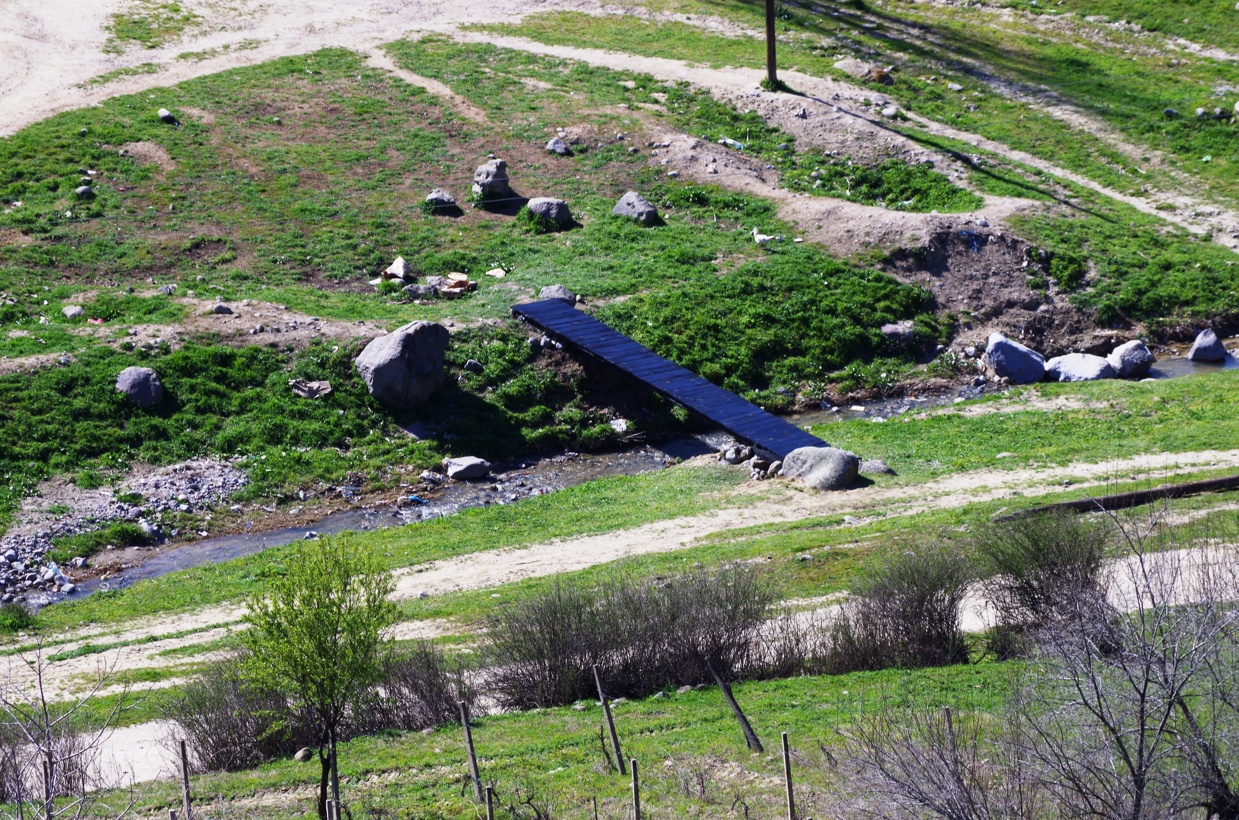 Little bridge on the Disanska River in the village Dolni Disan